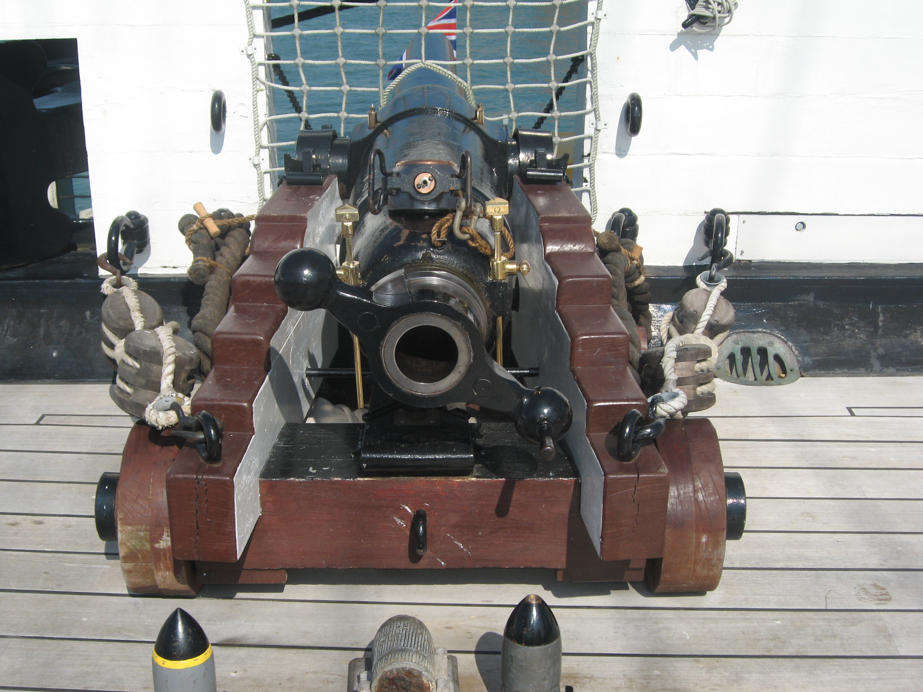 Breech end view of RBL 40 pounder 35 cwt Armstrong gun on the deck of HMS Warrior.